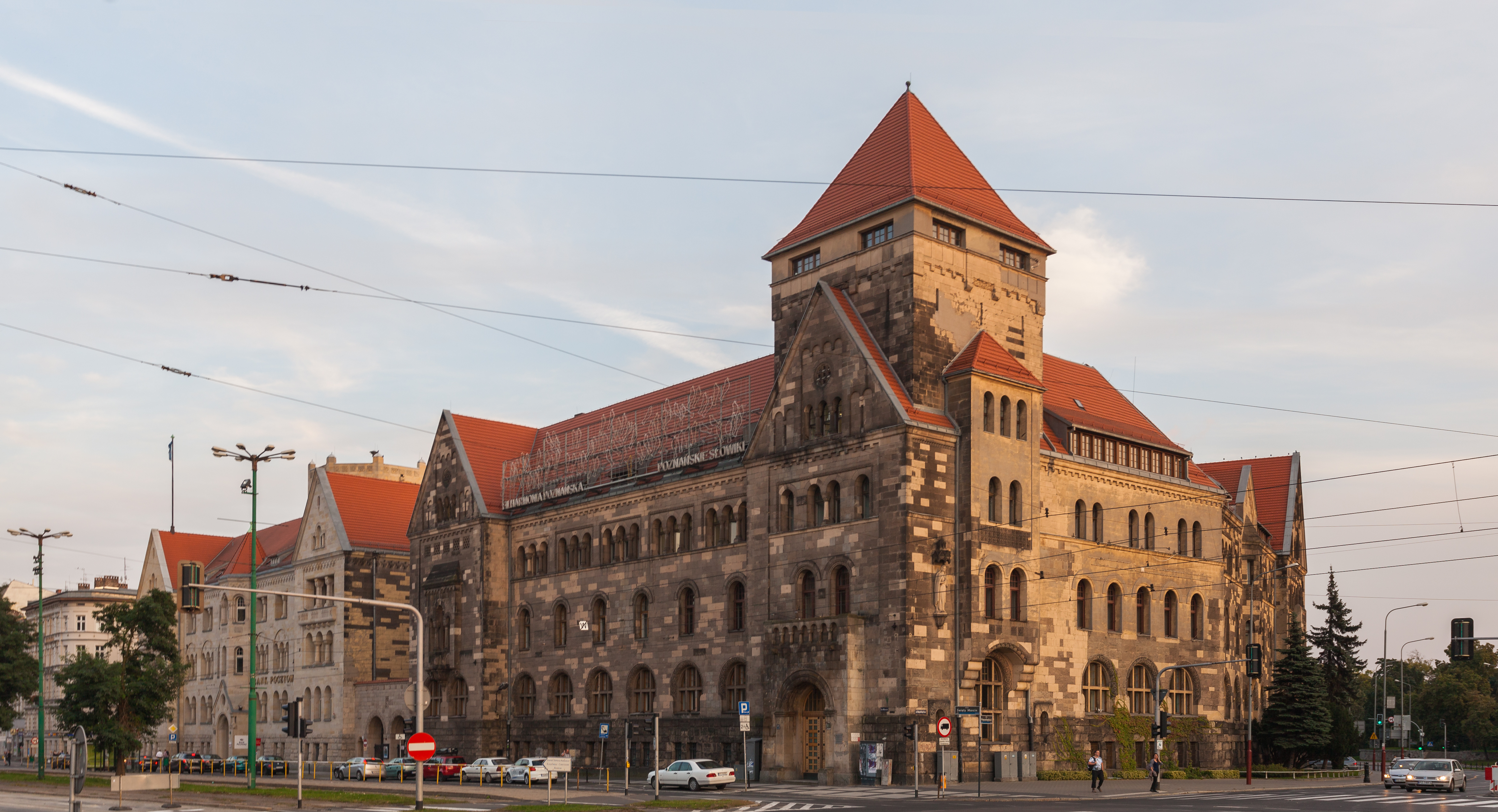 Poznan Philharmonic, Poznan, Poland